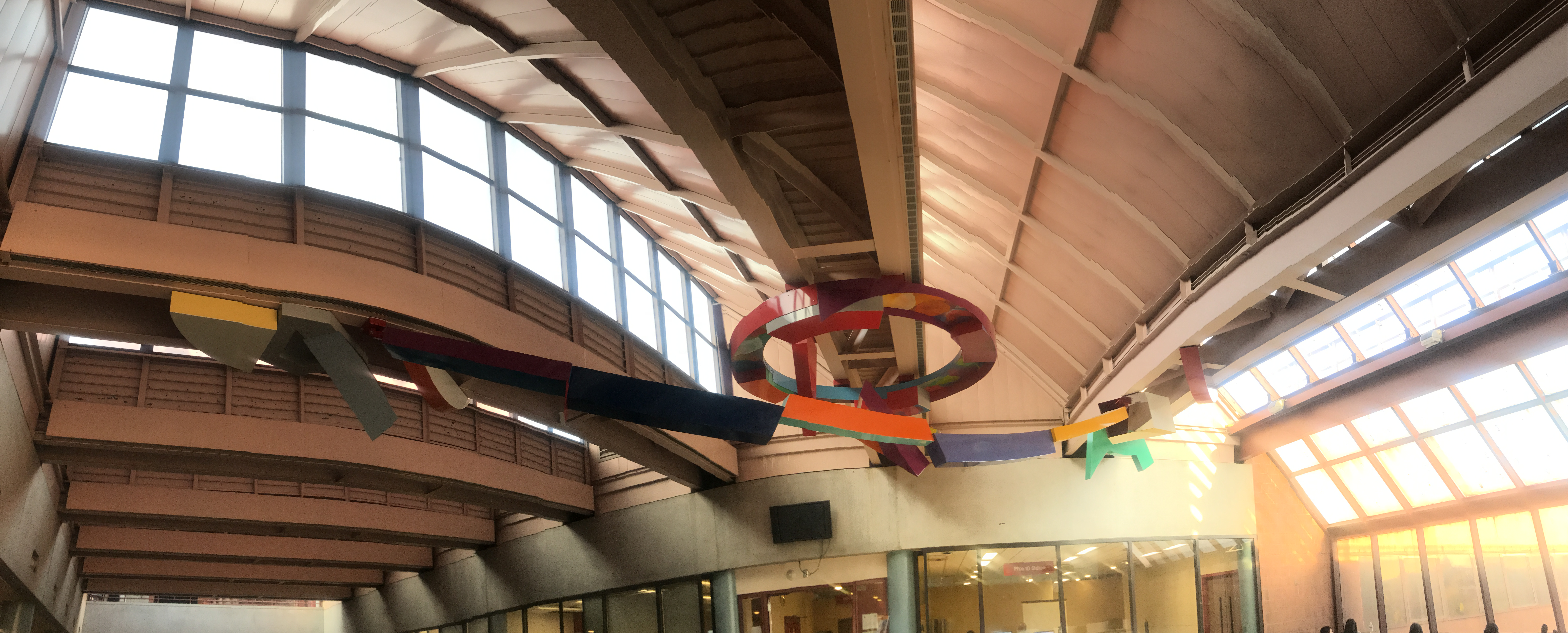 picture of artwork made by Sam Gilliam